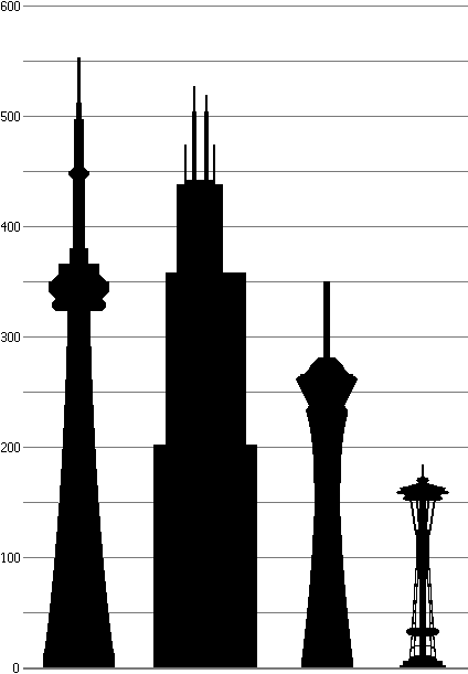 Four famous towers—CN Tower, Willis Tower (Sears Tower), Stratosphere Las Vegas, Space Needle—from central/western United States and Canada. Profiles used to compare size.